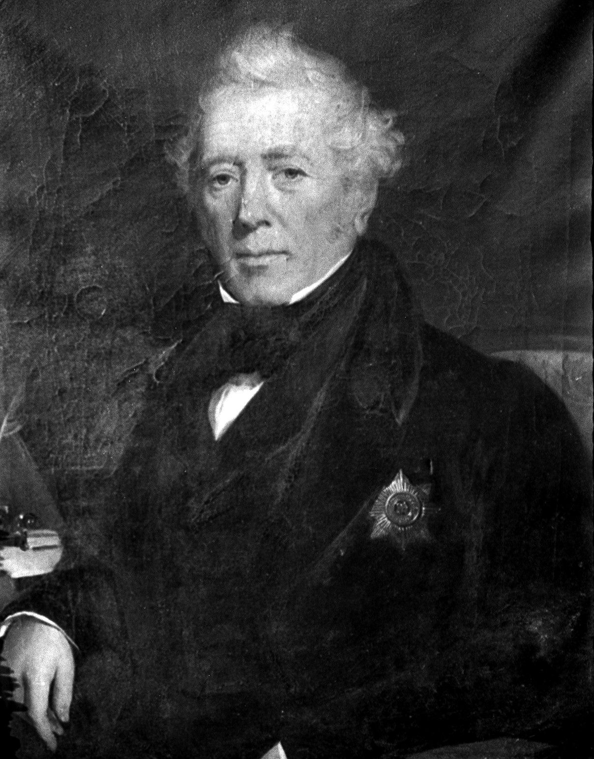 Portrait of Sir Alexander Crichton Iconographic Collections Keywords: Alexander Crichton